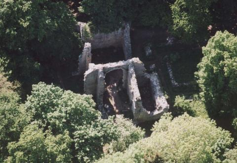 Bükkszentlélek, convent ruins, Hungary, aerial photography